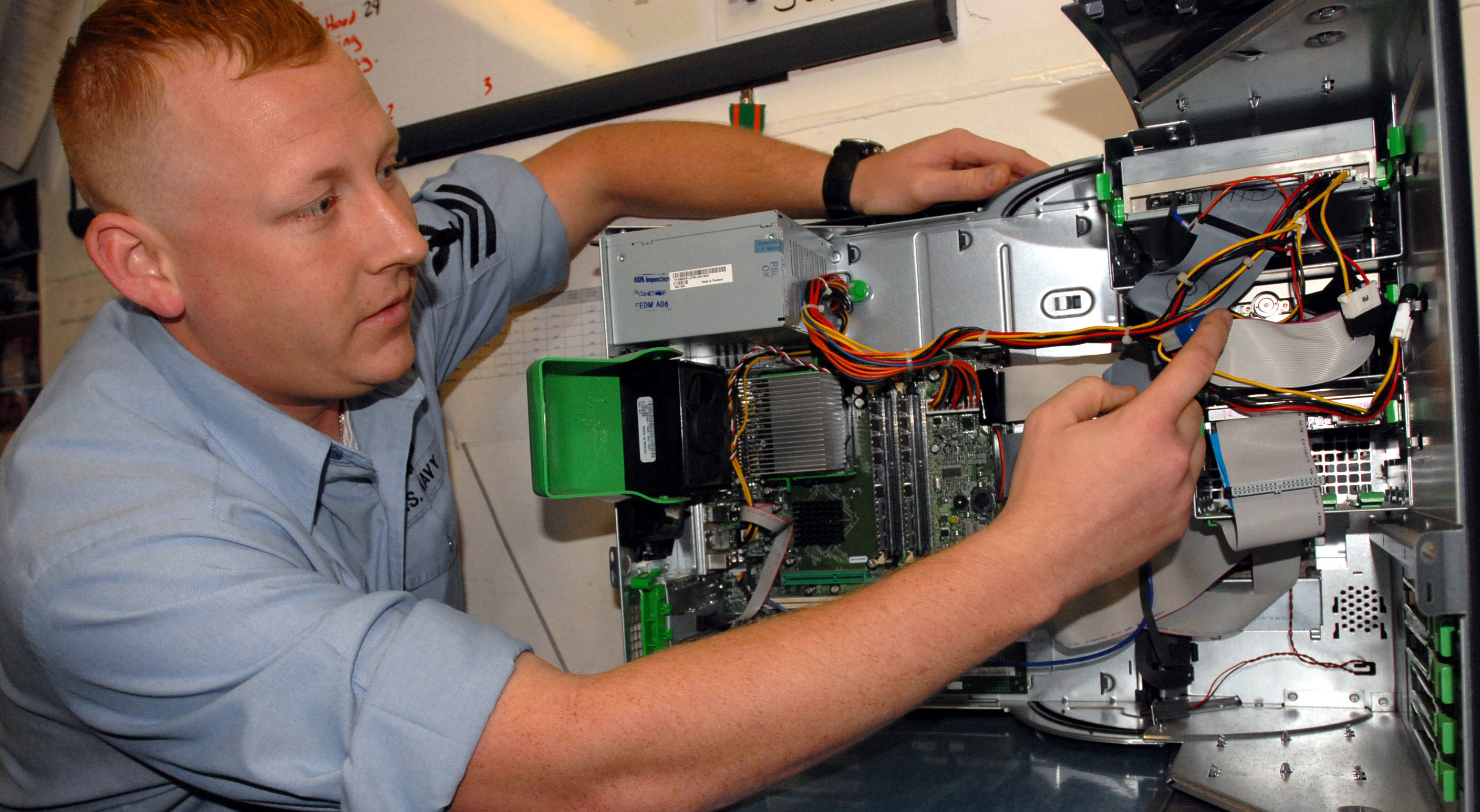 Persian Gulf (March 22, 2006) - Information Systems Technician 1st Class Chris Hedger inspects the internal components of a computer during Information Security (INFOSEC) training aboard the Nimitz-class aircraft carrier USS Ronald Reagan (CVN 76 Reagan and embarked Carrier Air Wing One Four (CVW-14) are currently on a deployment conducting Maritime Security Operations (MSO) in support of the global war on terrorism. U.S. Navy photo by Photographer's Mate 3rd Class Christopher D. Blachly (RELEASED)